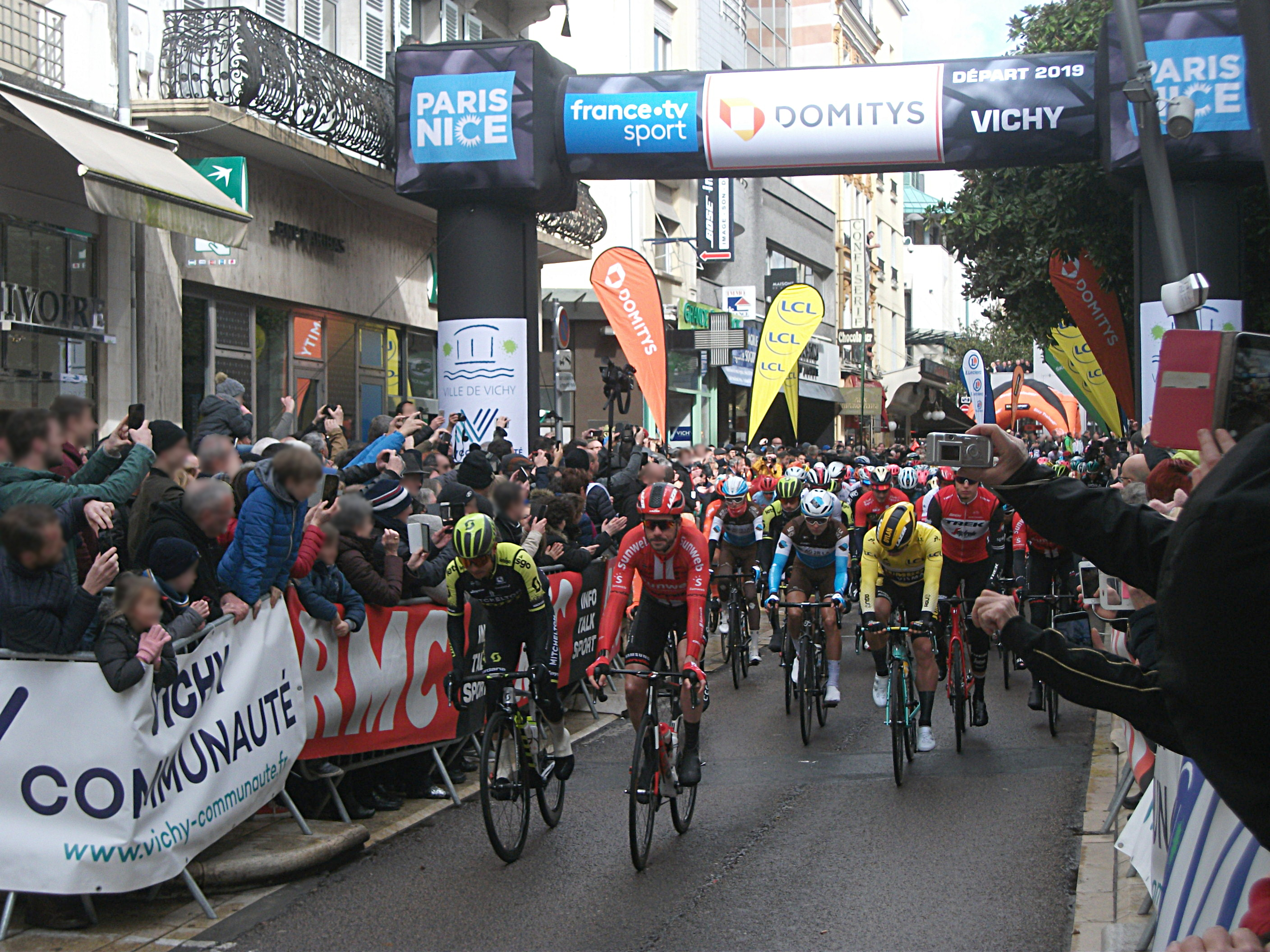 Cyclists a few seconds after fictive start of the 2019 Paris–Nice, stage 4, in Vichy, Allier, Auvergne-Rhône-Alpes, France, rue Clemenceau. [17845]